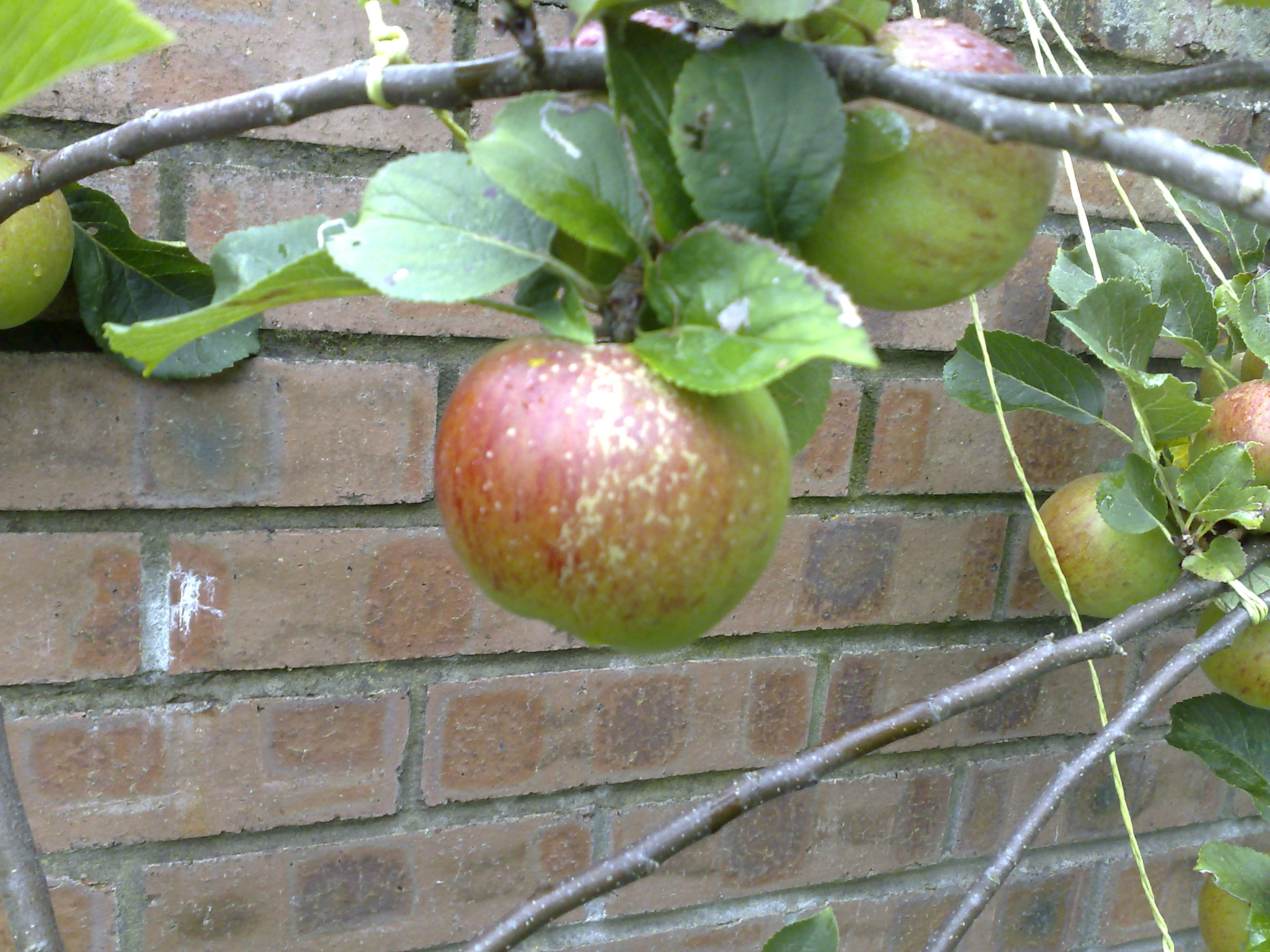 Photograph of lord lambourne apple on the tree